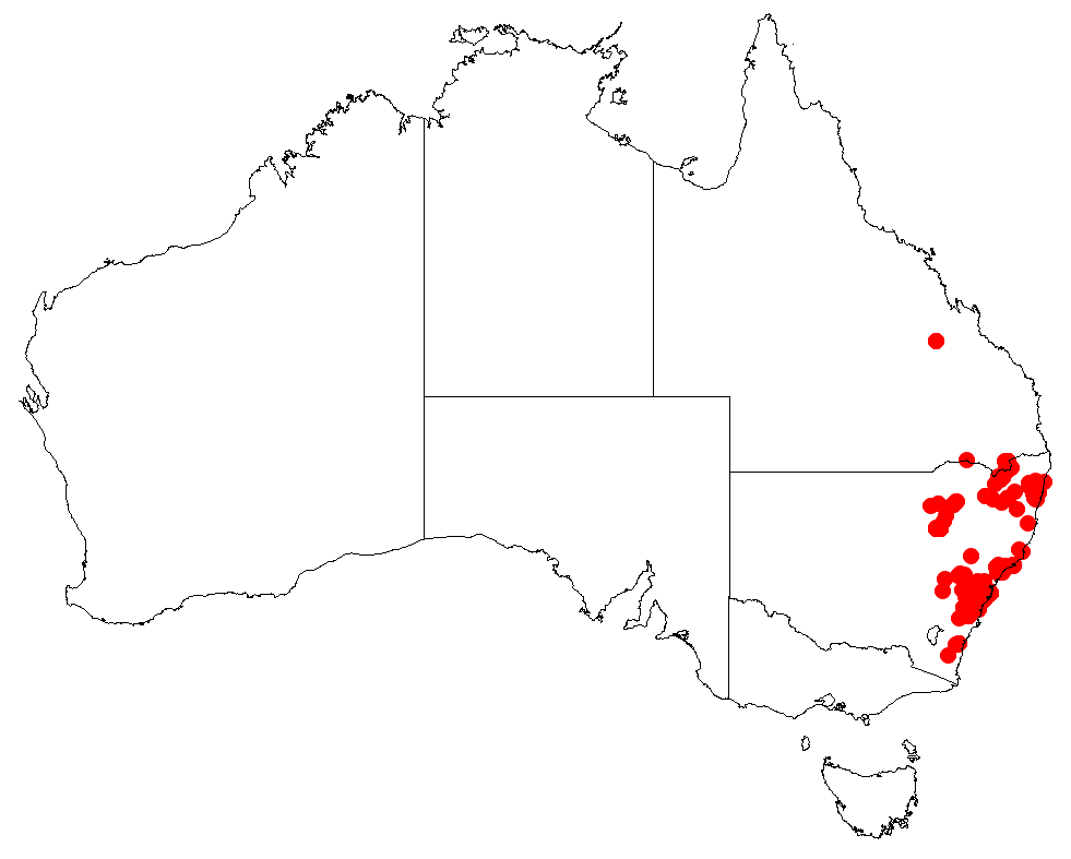 Bossiaea rhombifolia Occurrence data downloaded 11 September 2018 from AVH